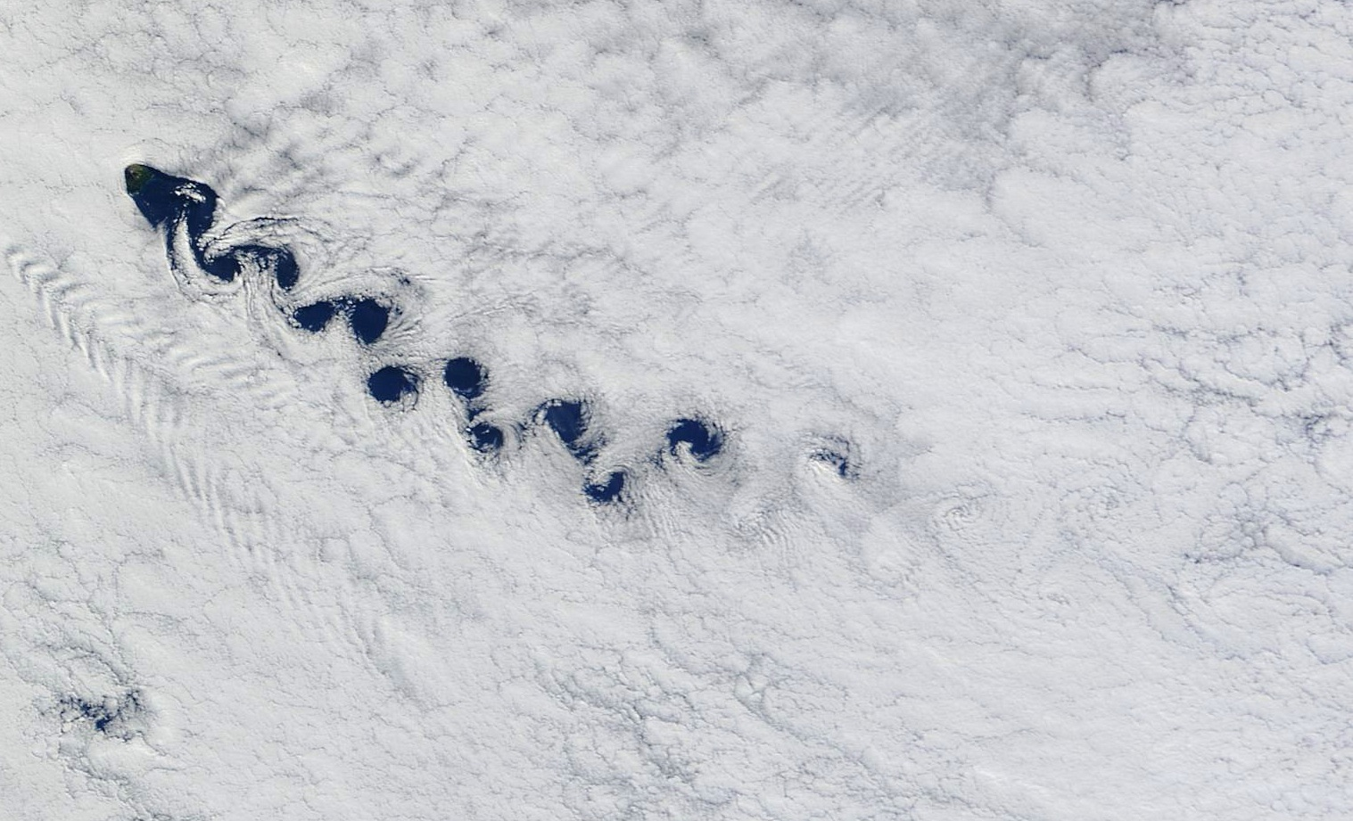 The Moderate Resolution Imaging Spectroradiometer (MODIS) on NASA’s Terra satellite captured this natural-color image of a von karman vortex street off Tristan da Cunha island, on July 10, 2010 at 11:00(UTC).